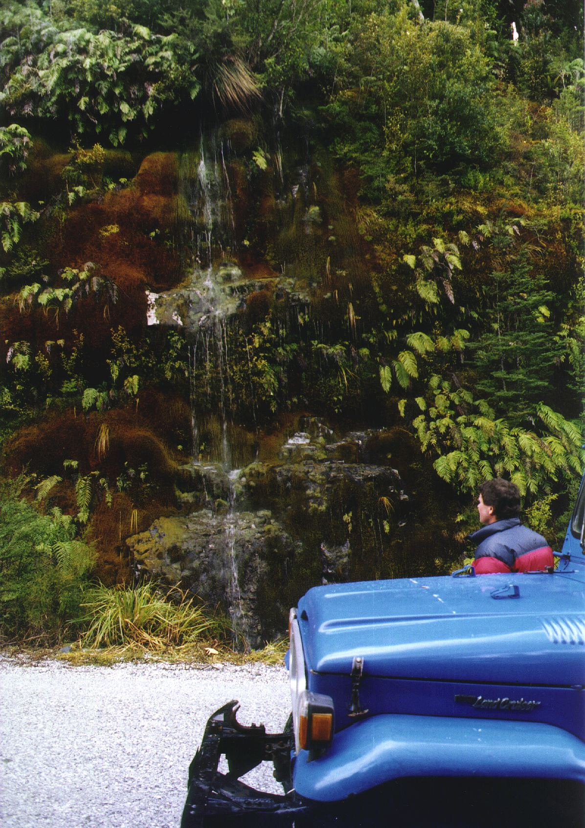 The Lemin Moss Garden on the Wilmot Pass Road Fiordland New Zealand